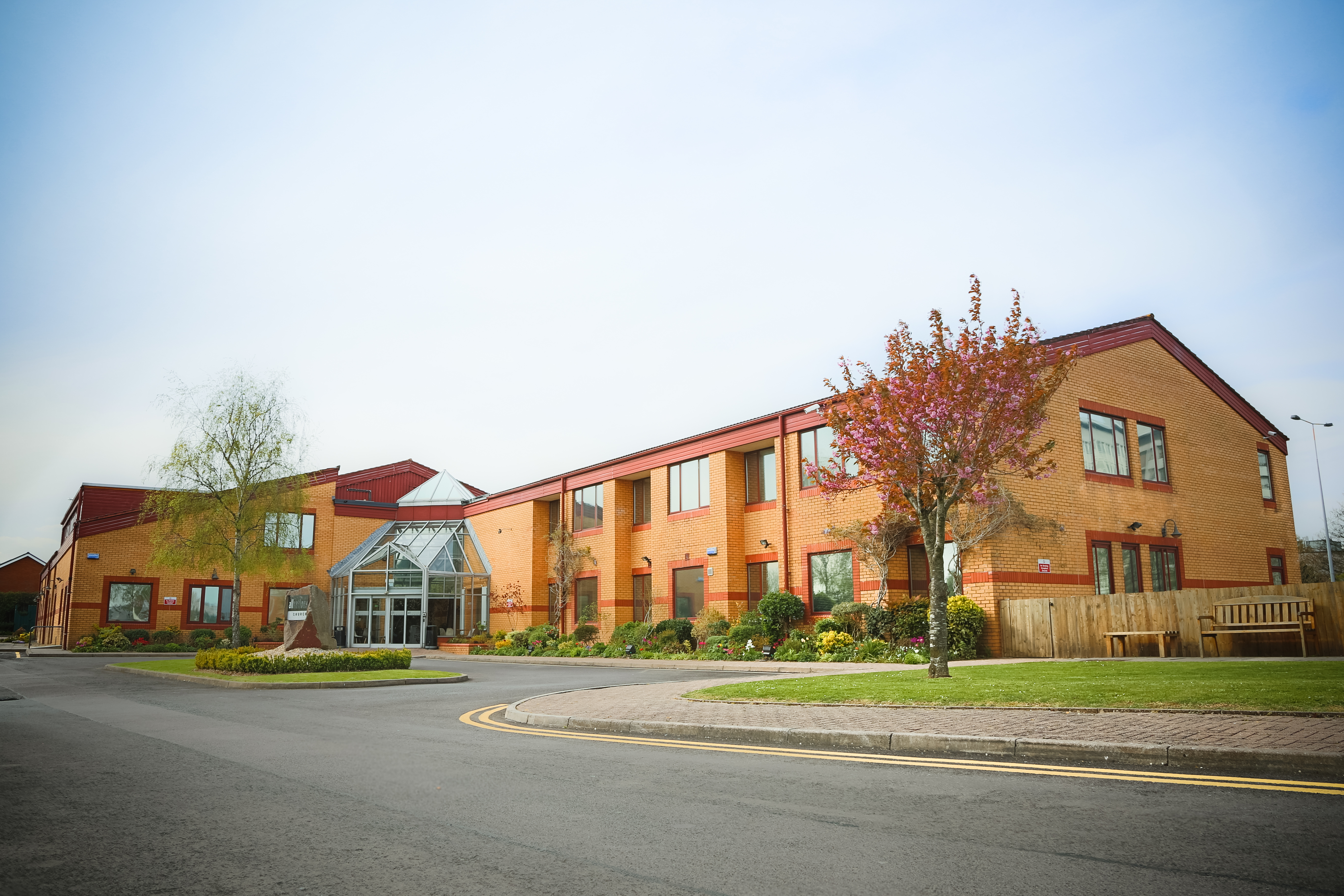 All Nations Centre is Cardiff's premier conference and events venue.